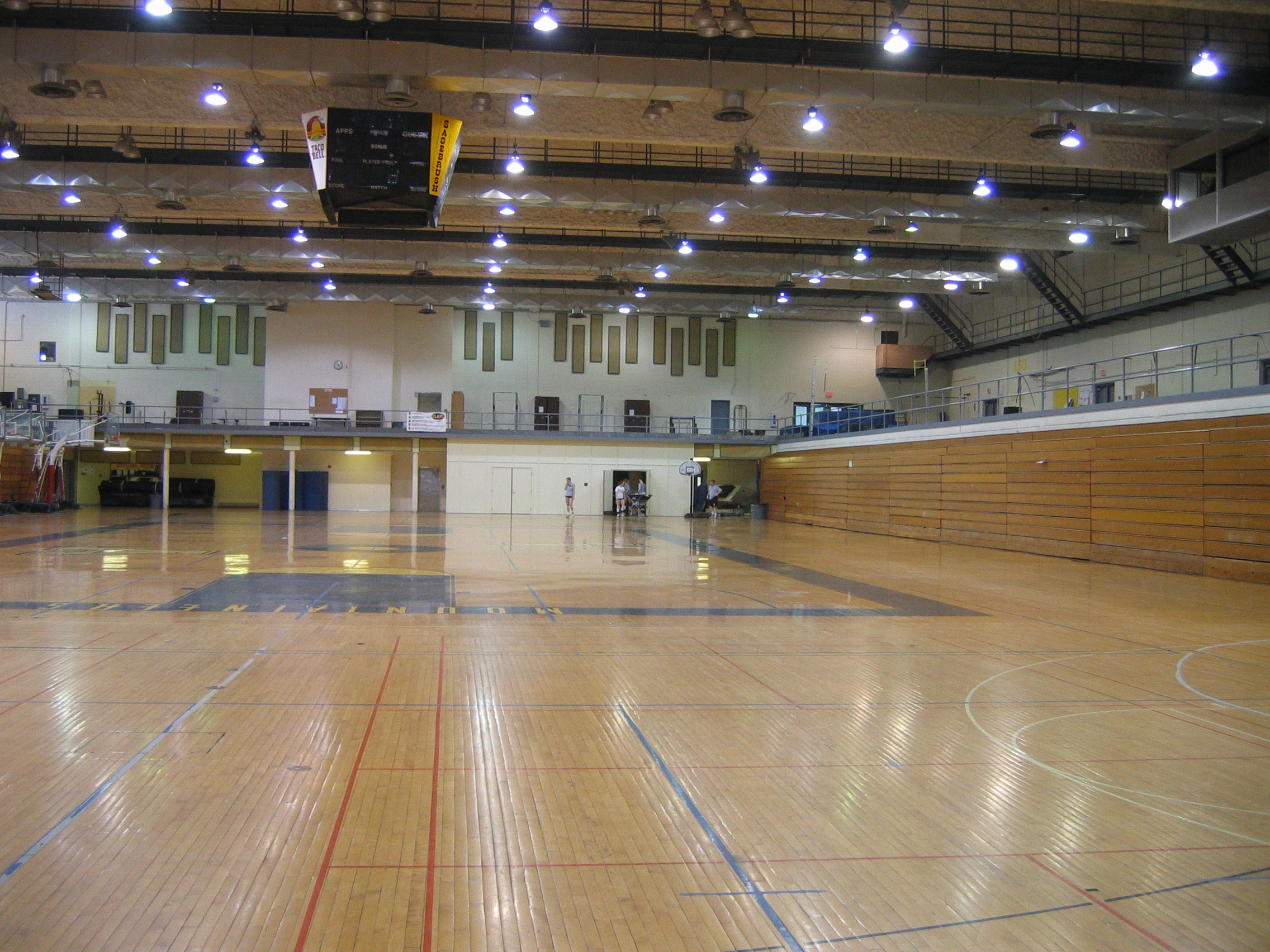 Football & Basketball Facilities Appalachian State Basketball Gym